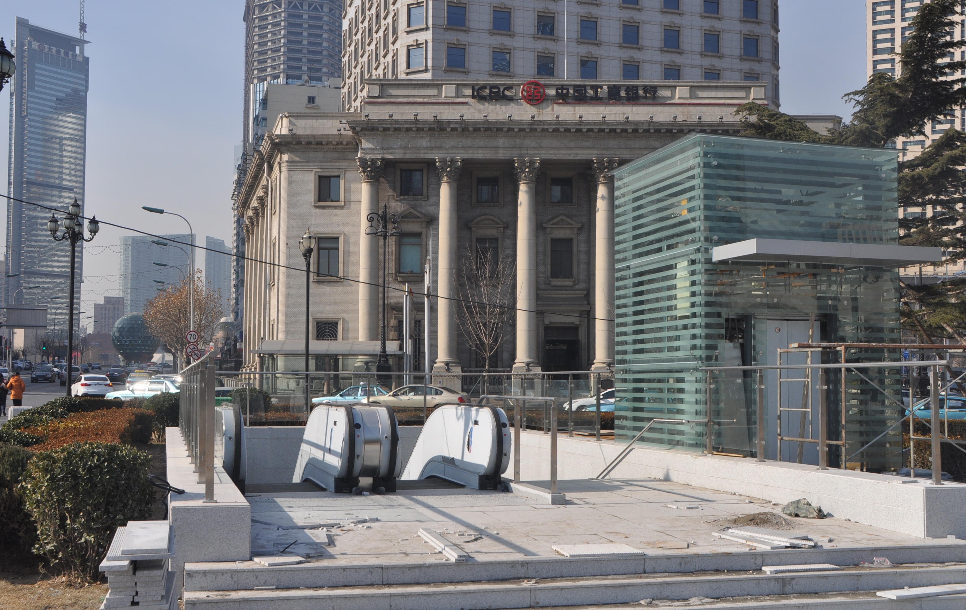 Dalian Metro Line 2-Zhongshan Square Station-West (Zhongshan Rd) Entrance